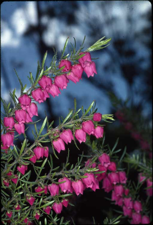 Boronia molloyae in the Australian National Botanic Gardens